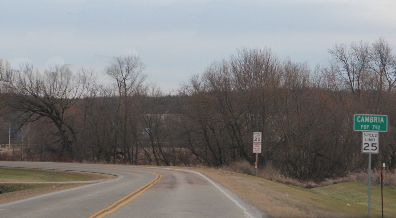 The sign for Cambria, Wisconsin on County P.